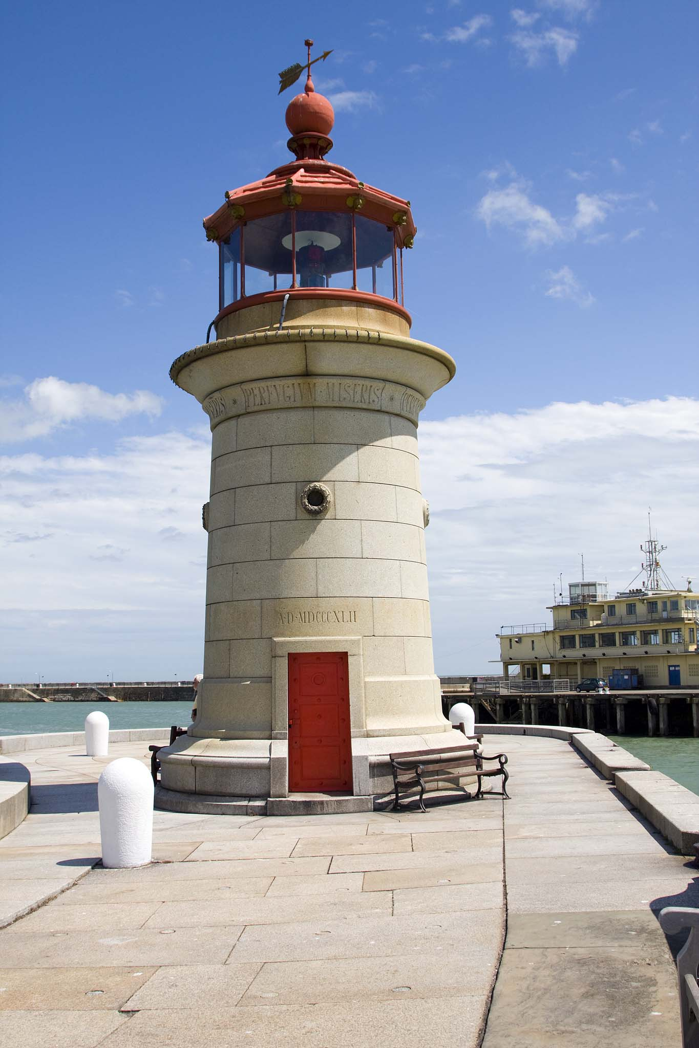 Ramsgate Harbour Lighthouse